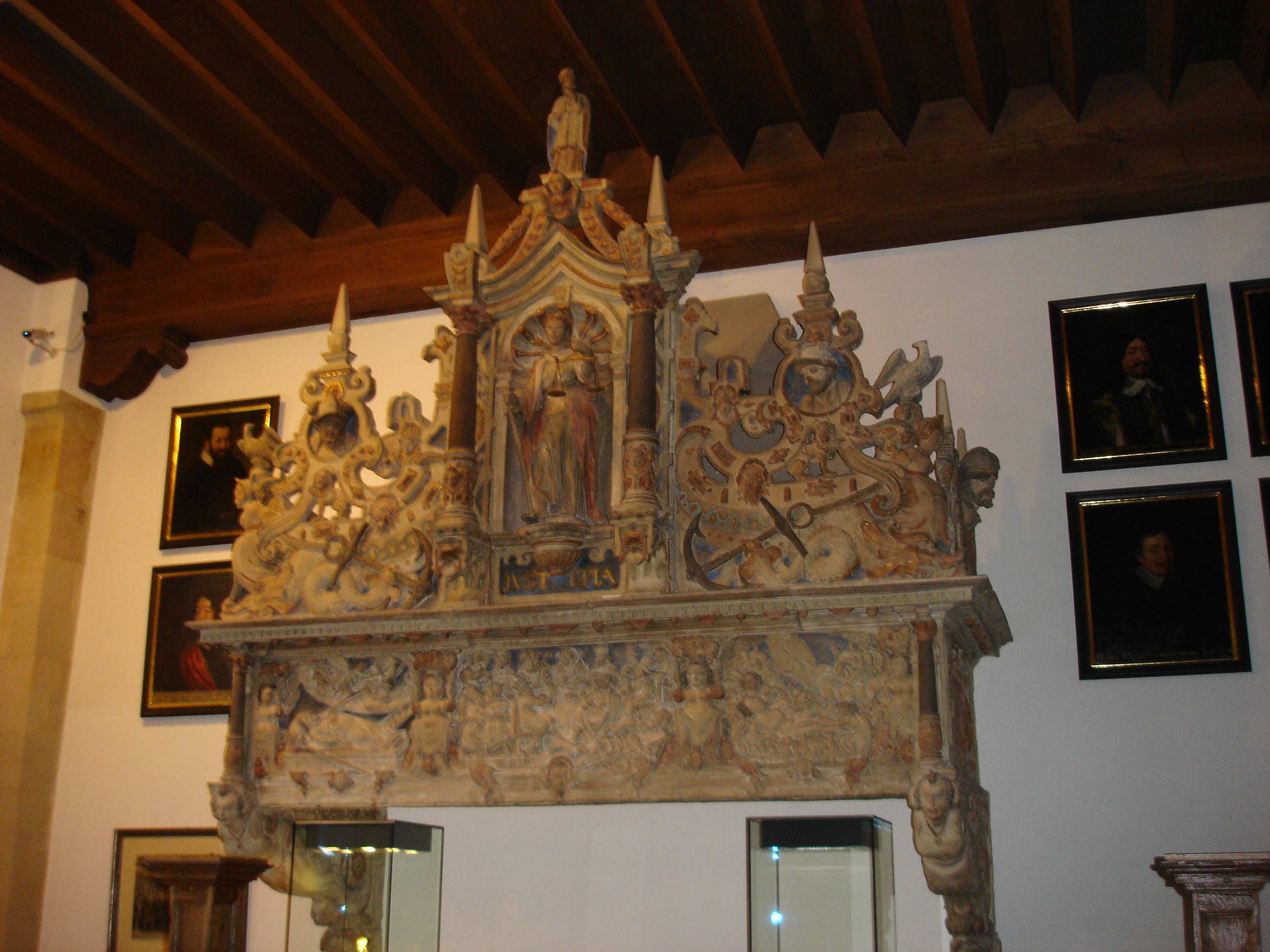 Fire-place in the "Friedenssaal" of the historical city hall in Münster, Westphalia, Germany